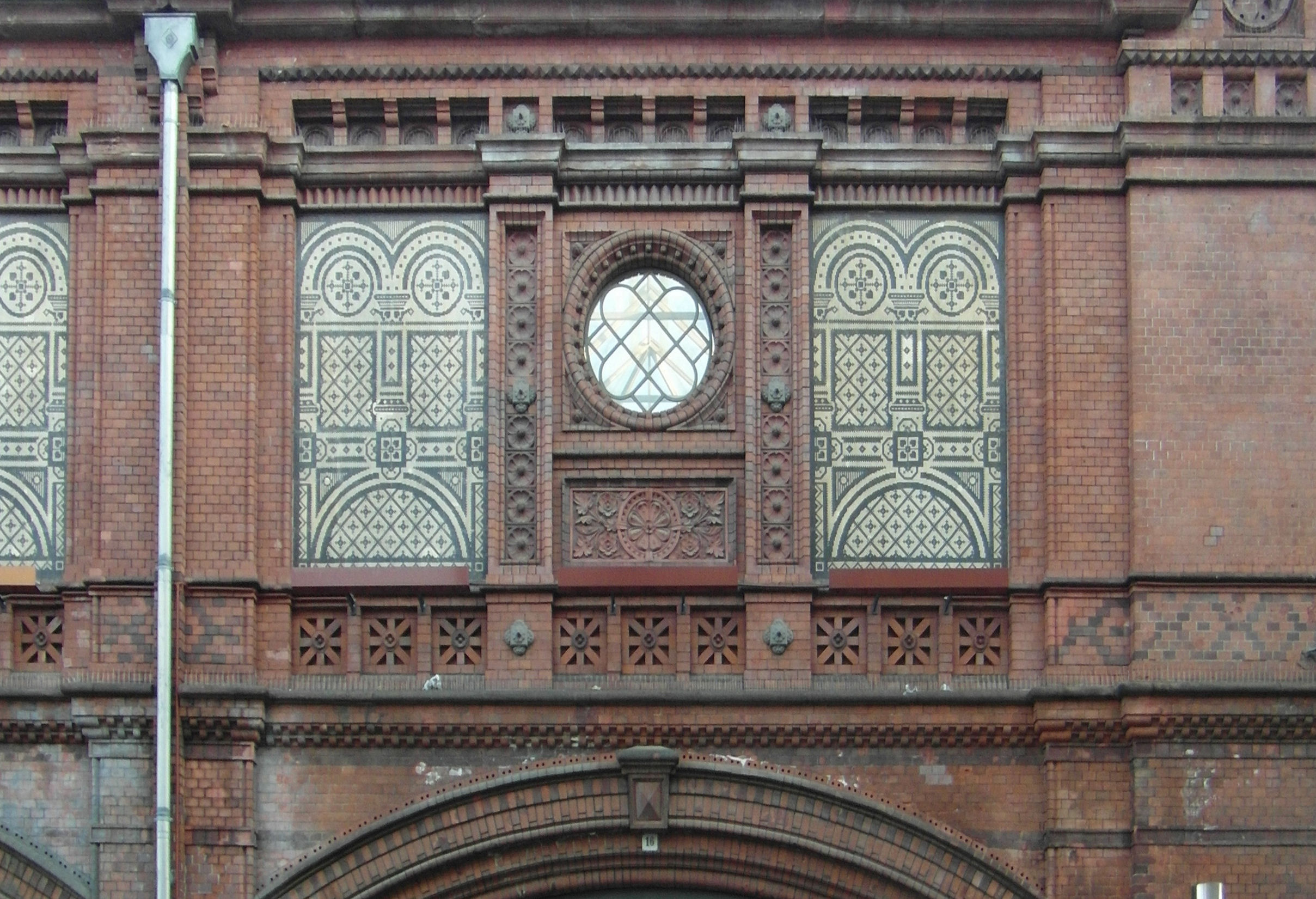 Berlin - S-Bahnhof Hackescher Markt – Stadtbahn (Detail of the north-façade digitally corrected for perspective)